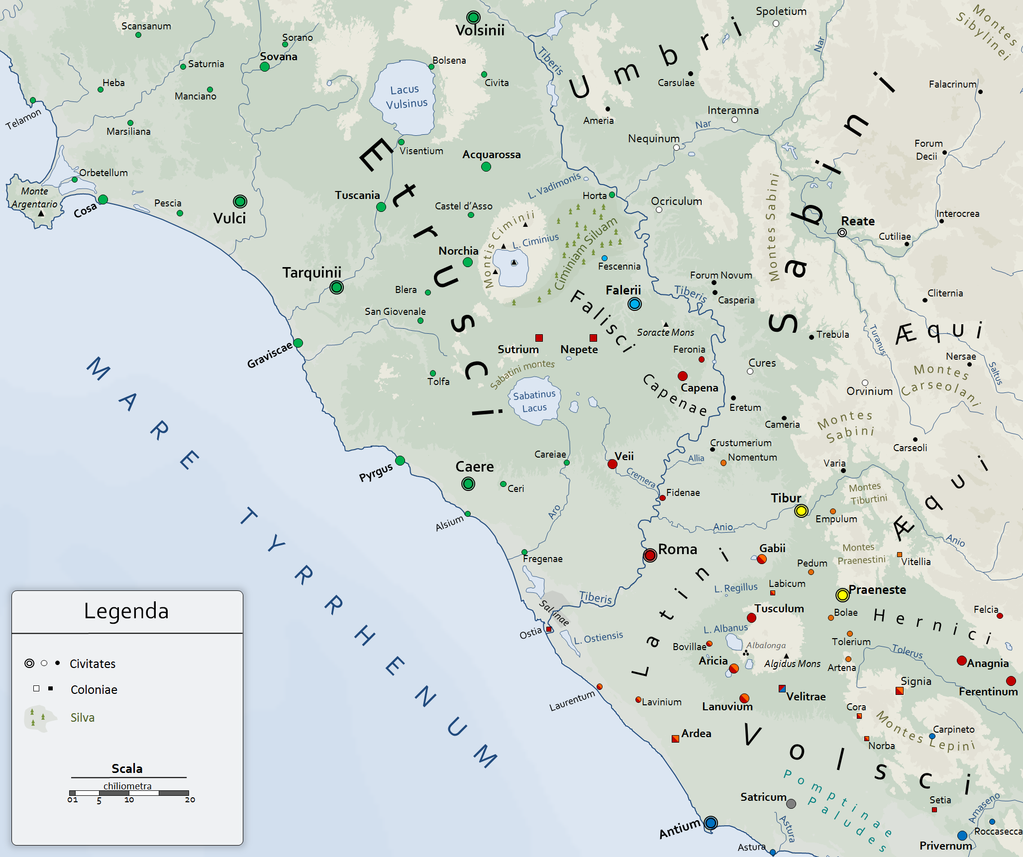 See Guerre romano-étrusque (358 - 351)#Contexte for the full legend/caption of the map.